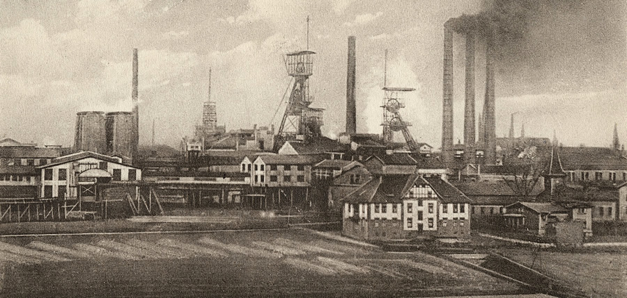 Coal mines in Upper Silesia, 1923-1925